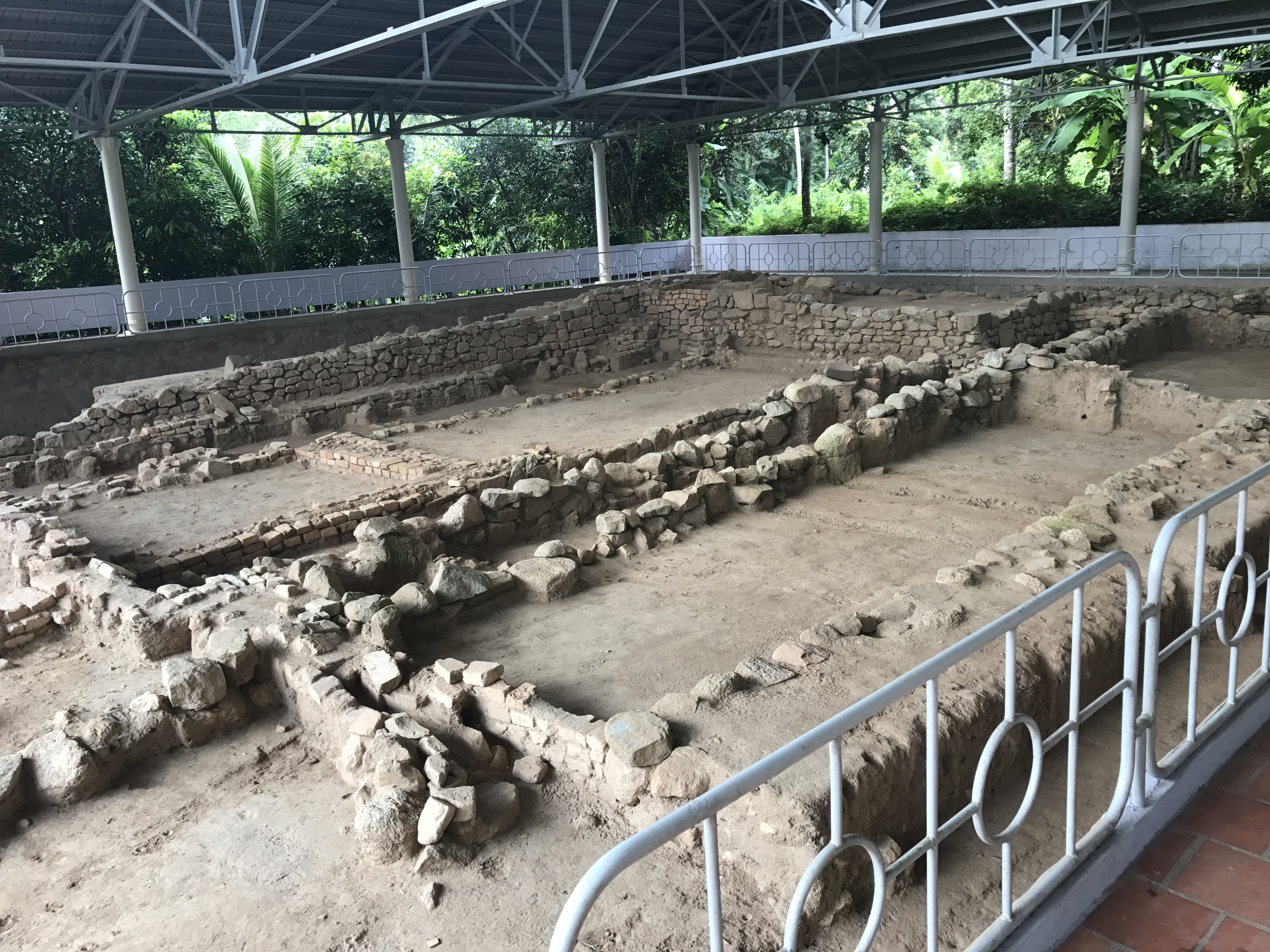 Ruins of Funan culture in Nam Linh Son archaeological site, Oc Eo, Vietnam.